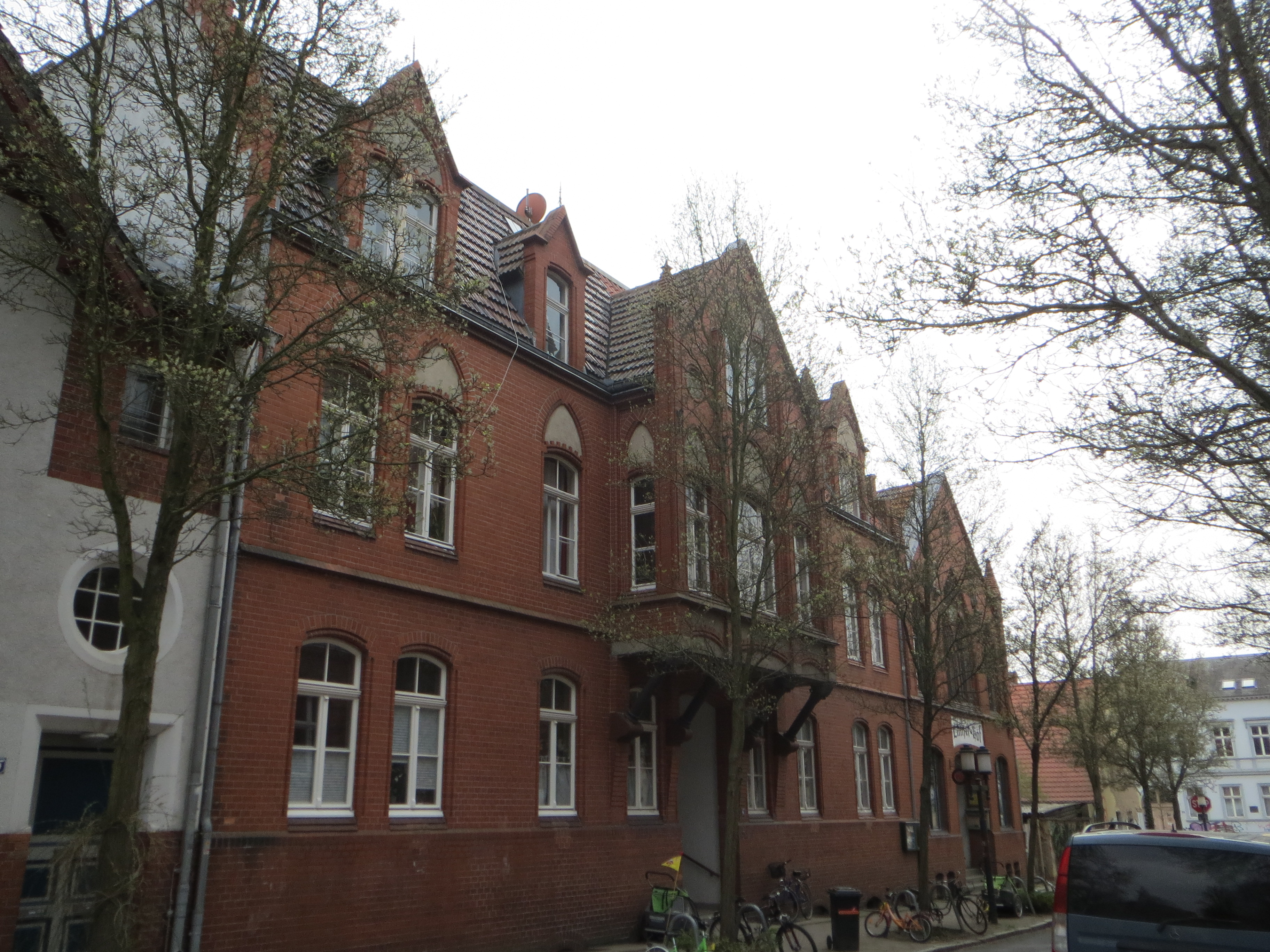 Lutherhof, Martin-Luther-Str. 8, Greifswald